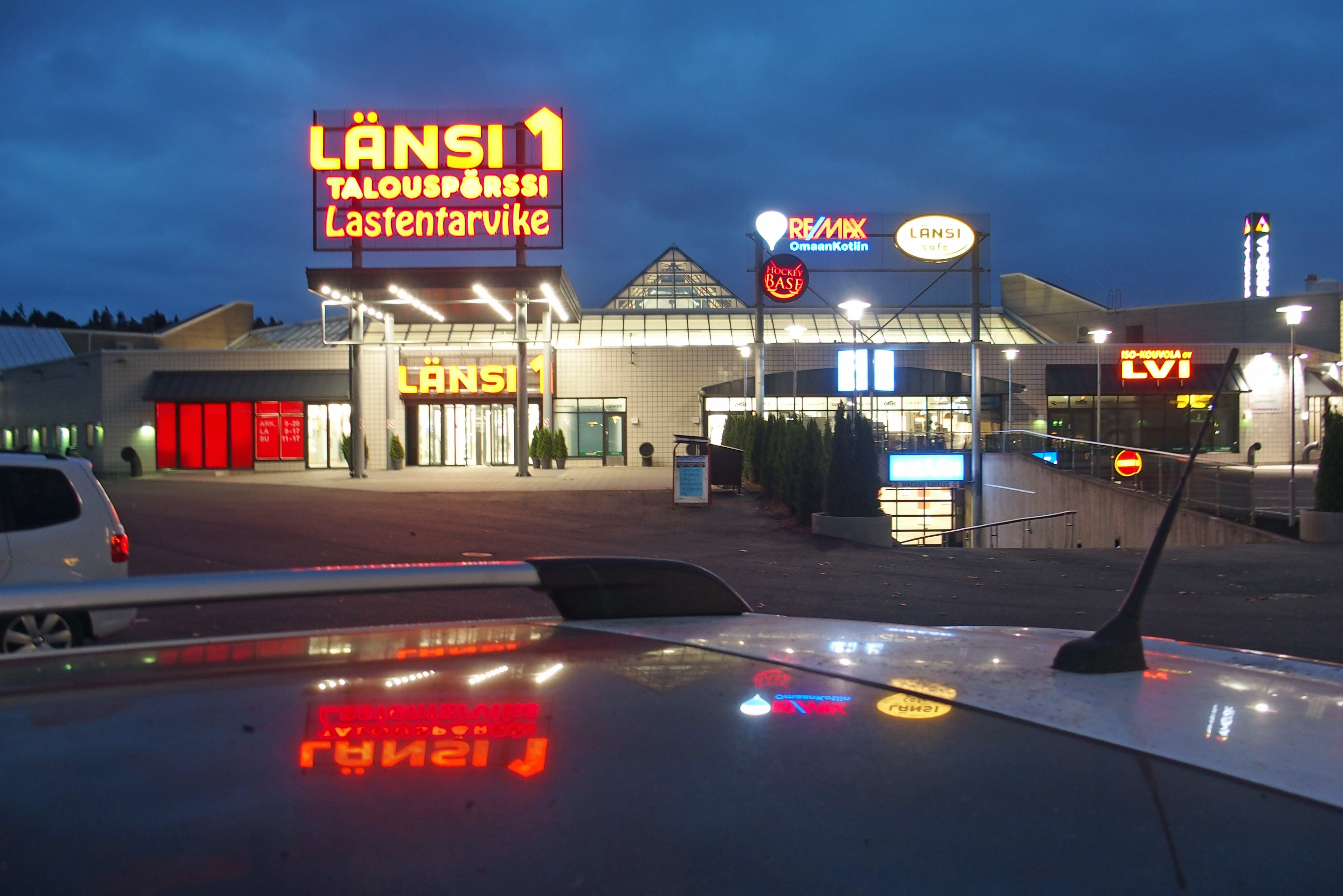 Länsi1 small shopping mall in Länsikeskus, Turku, Finland.